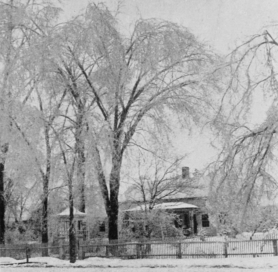 Daniel Whitney house built in Navarino, the town he had platted and which became part of modern Green Bay. Whitney lived in this house from approximately 1830 until his death in 1862. Photo is not dated in source, but probably was taken shortly before the source was published in 1899. Image was scanned by me from public domain source.